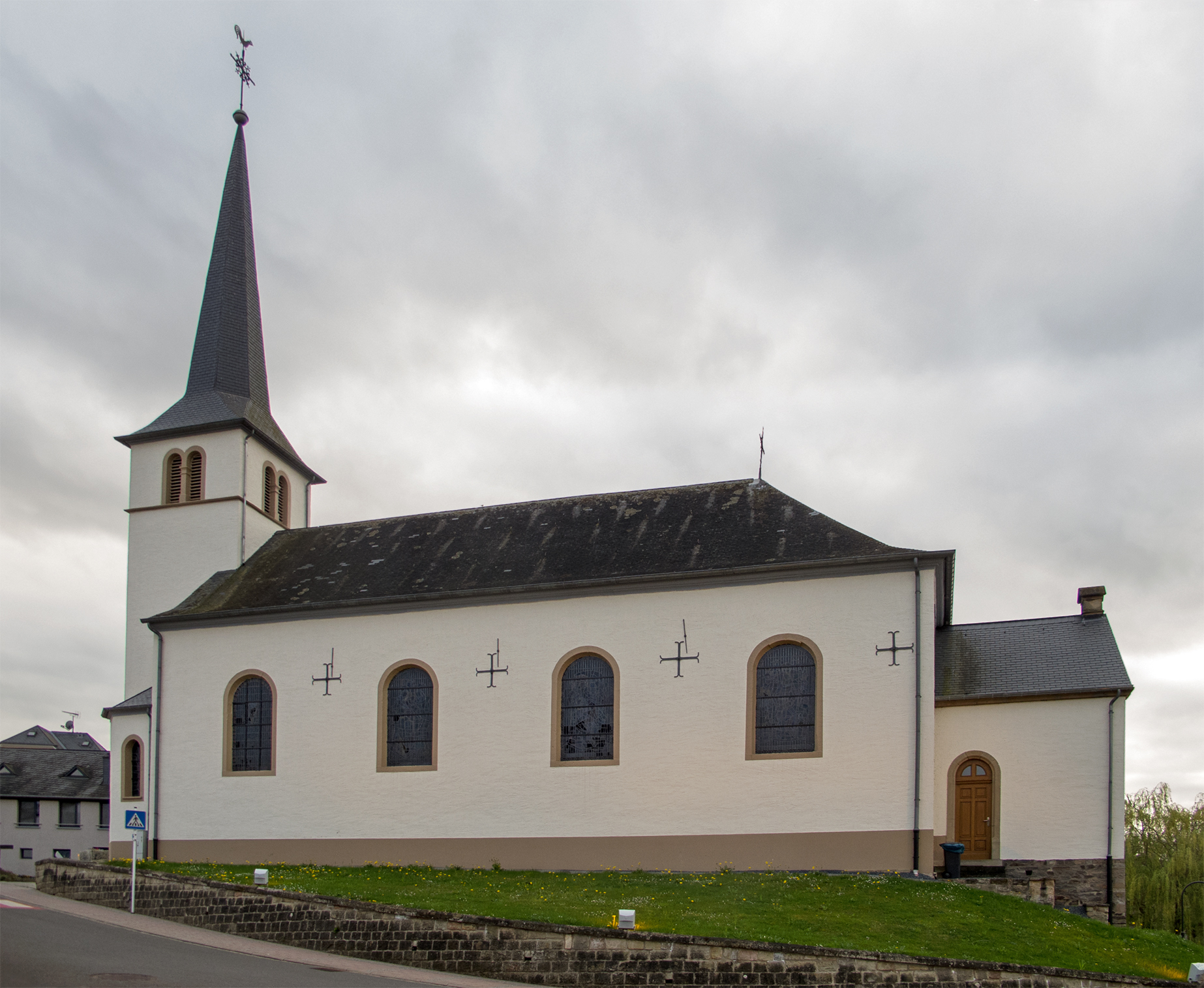 Church of Fouhren, Luxembourg